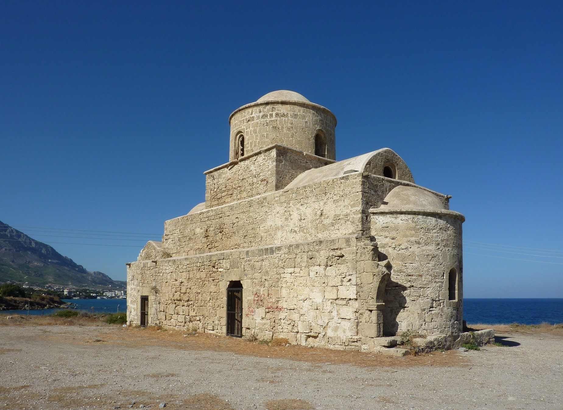 Saint Evlalios church, Lapta/Alsancak